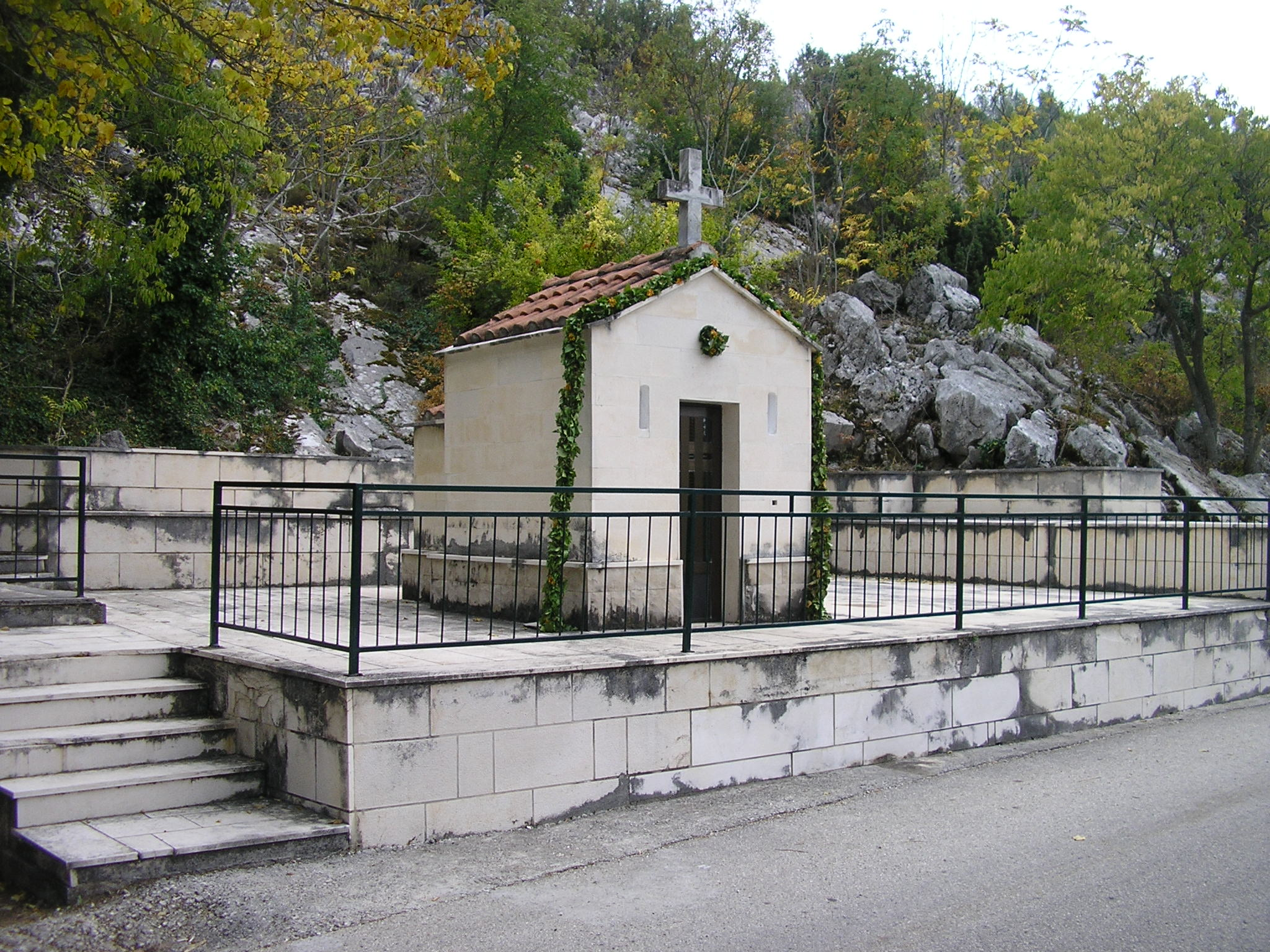 Chapel of St. Michael between Bijeli Vir and Kosa